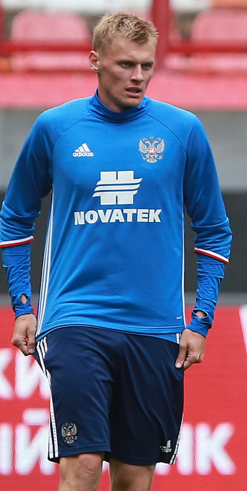 Roman Yemelyanov working out with the Russia national football team.